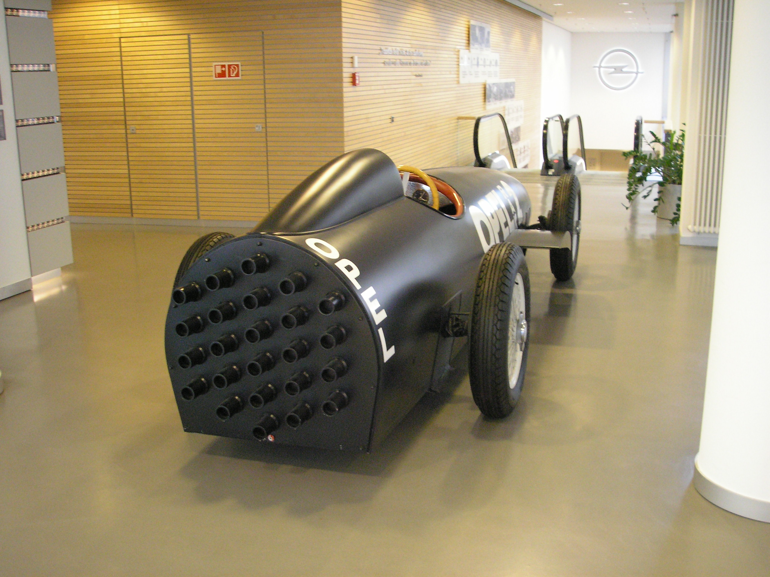 A 1928 Opel RAK2 (“RAK” stands for Rakete, “rocket”) at the “OPEL in Berlin” building, Friedrichstraße. This car, propelled by rocket motors, reached 238 km/h (148.75 mph) on the AVUS racetrack in Berlin on May 23, 1928.